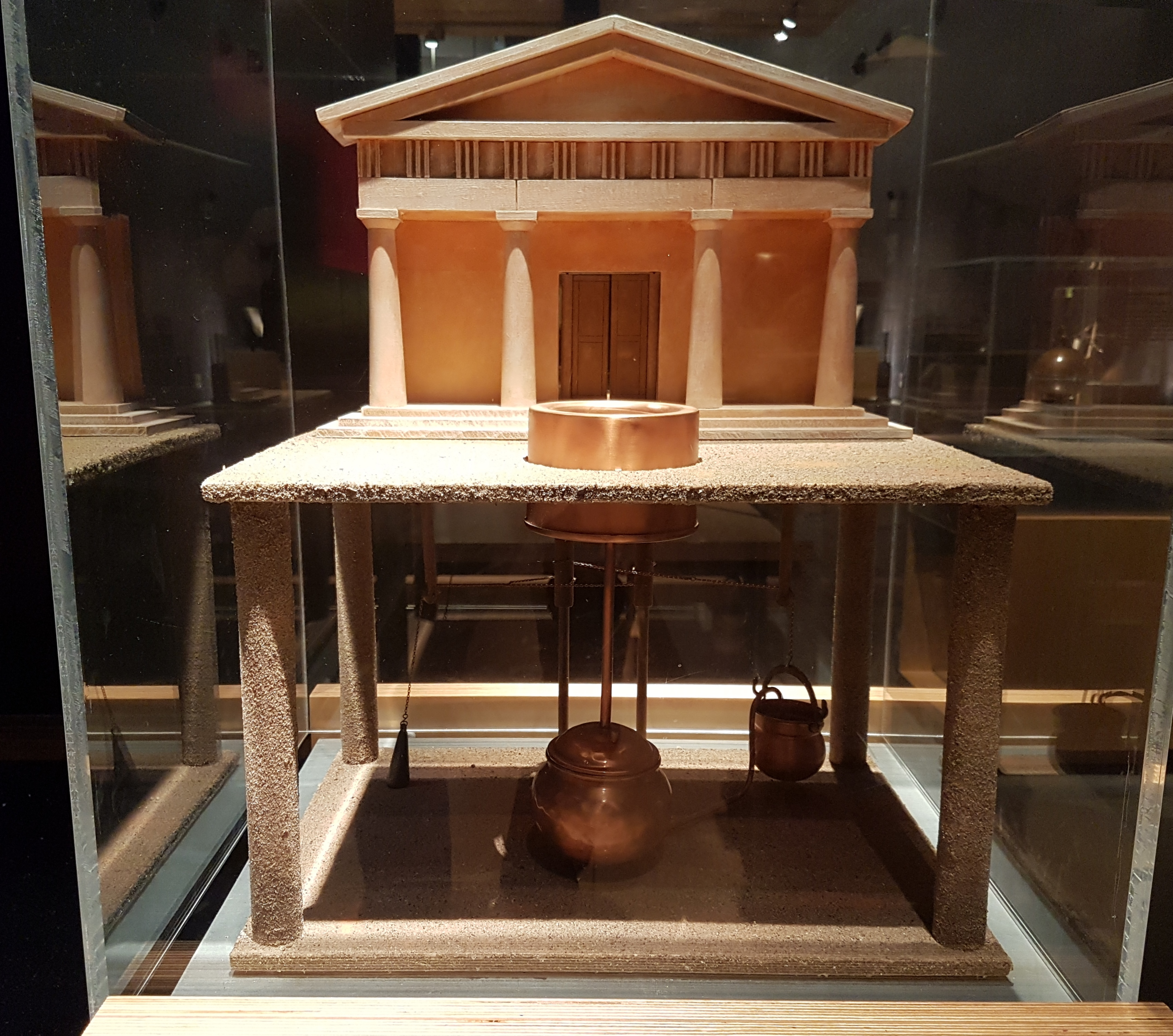 Ancient automated door system, water weights based, 1st century AD, Alexandria (model). Thessaloniki Technology Museum